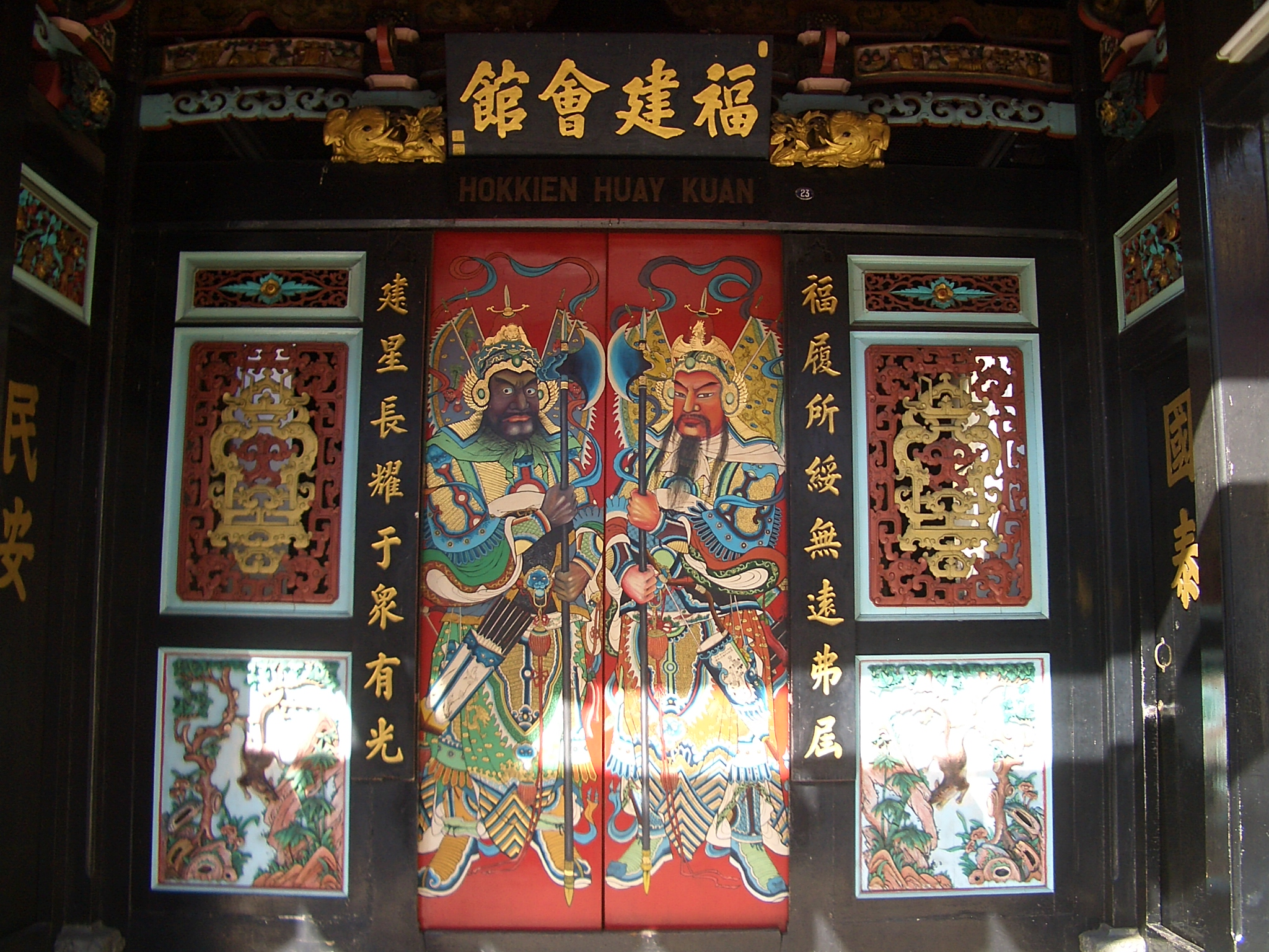 Melaka's Fujianese (Hokkien) Community Association ("Hokkien Huay Kuan", or Fujian Hui Guan, in Pinyin) is housed in a lavishly decorate building in the heart of in Melaka Chinatown